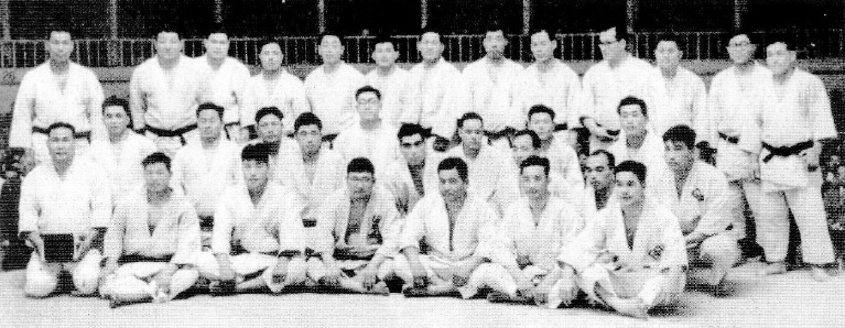 The participants of All-Japan Judo Championships in 1954.